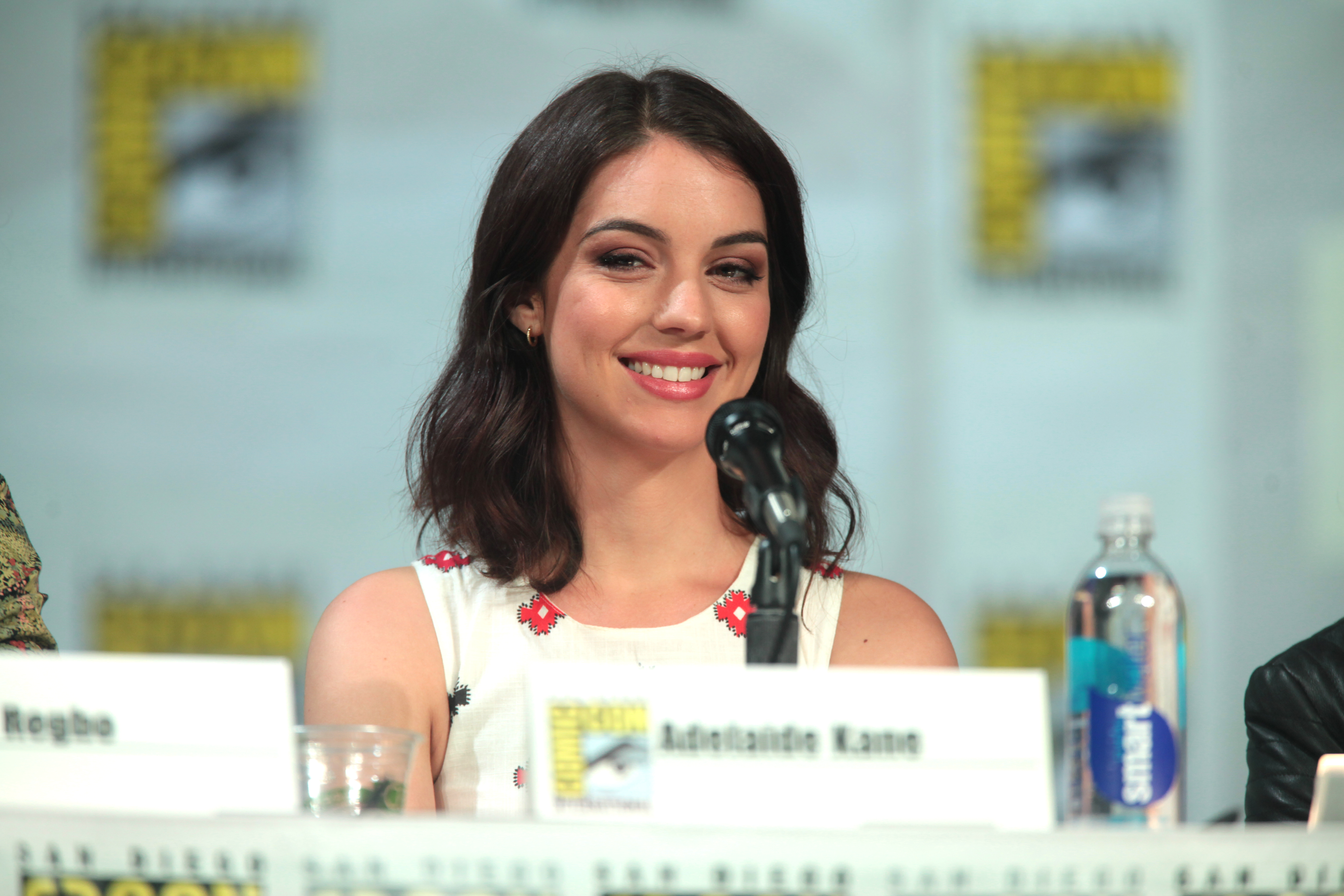 Adelaide Kane speaking at the 2014 San Diego Comic Con International, for "Reign", at the San Diego Convention Center in San Diego, California.